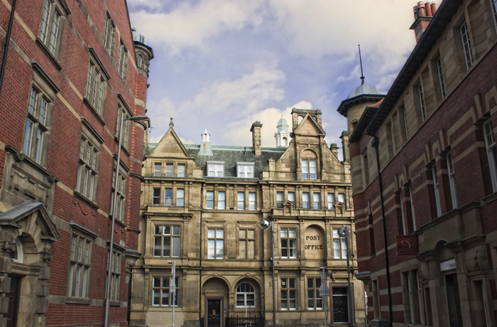 Photograph taken in the Sunniside district in Sunderland city centre.